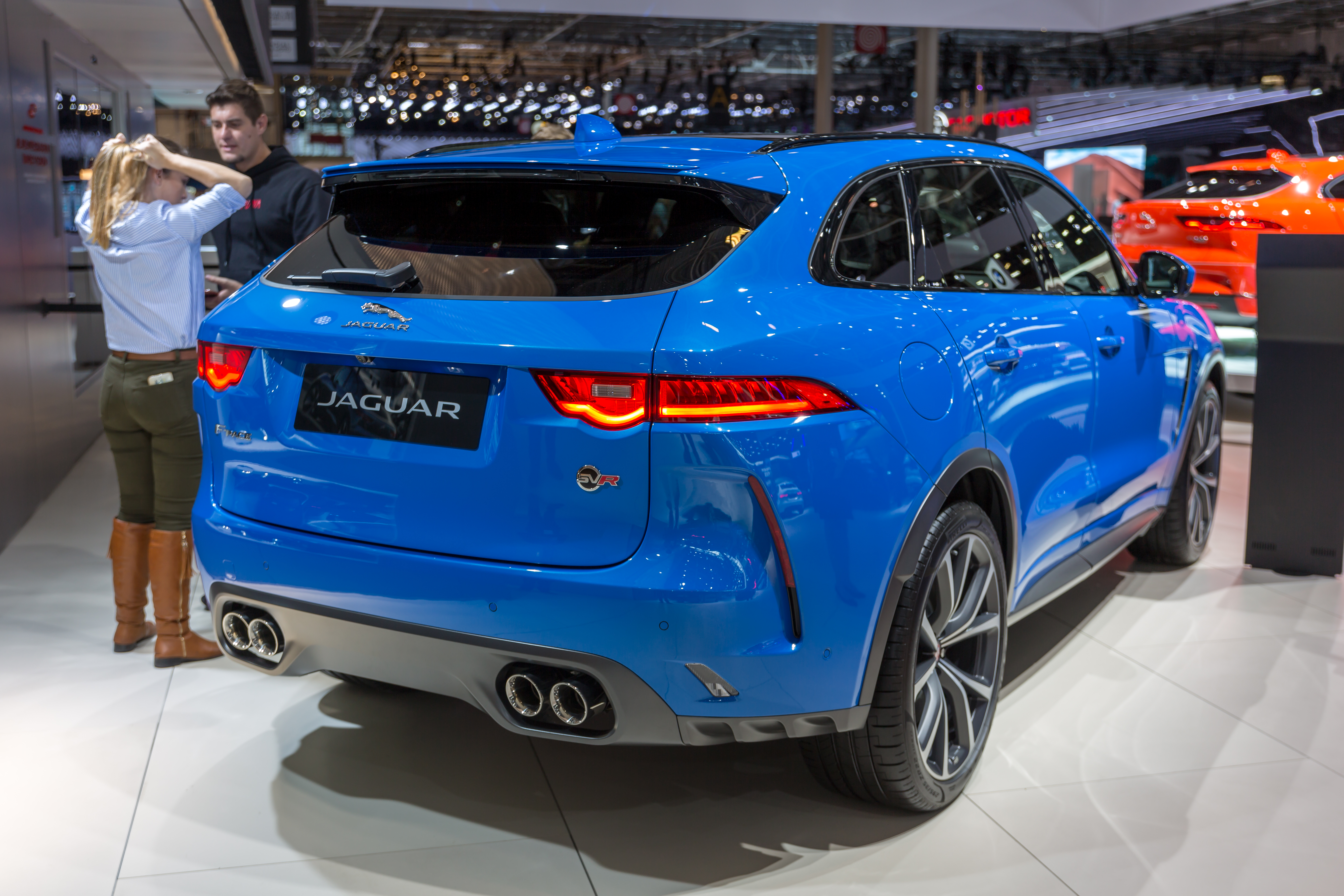 Jaguar F-Pace SVR, Mondial Paris Motor Show 2018